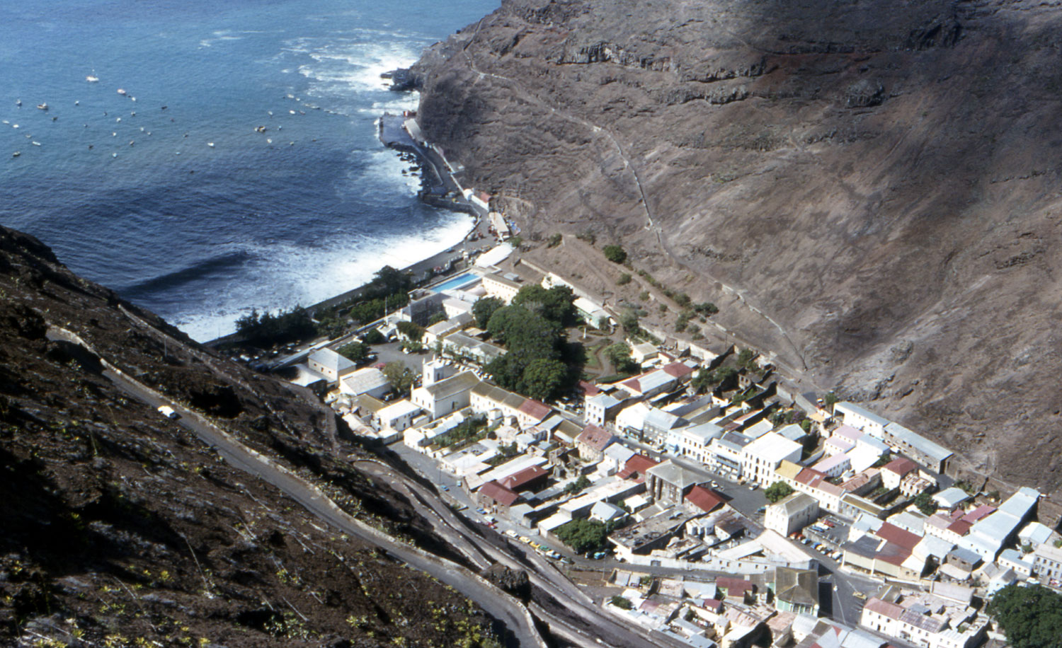 Jamestown, capital of Saint Helena, from above